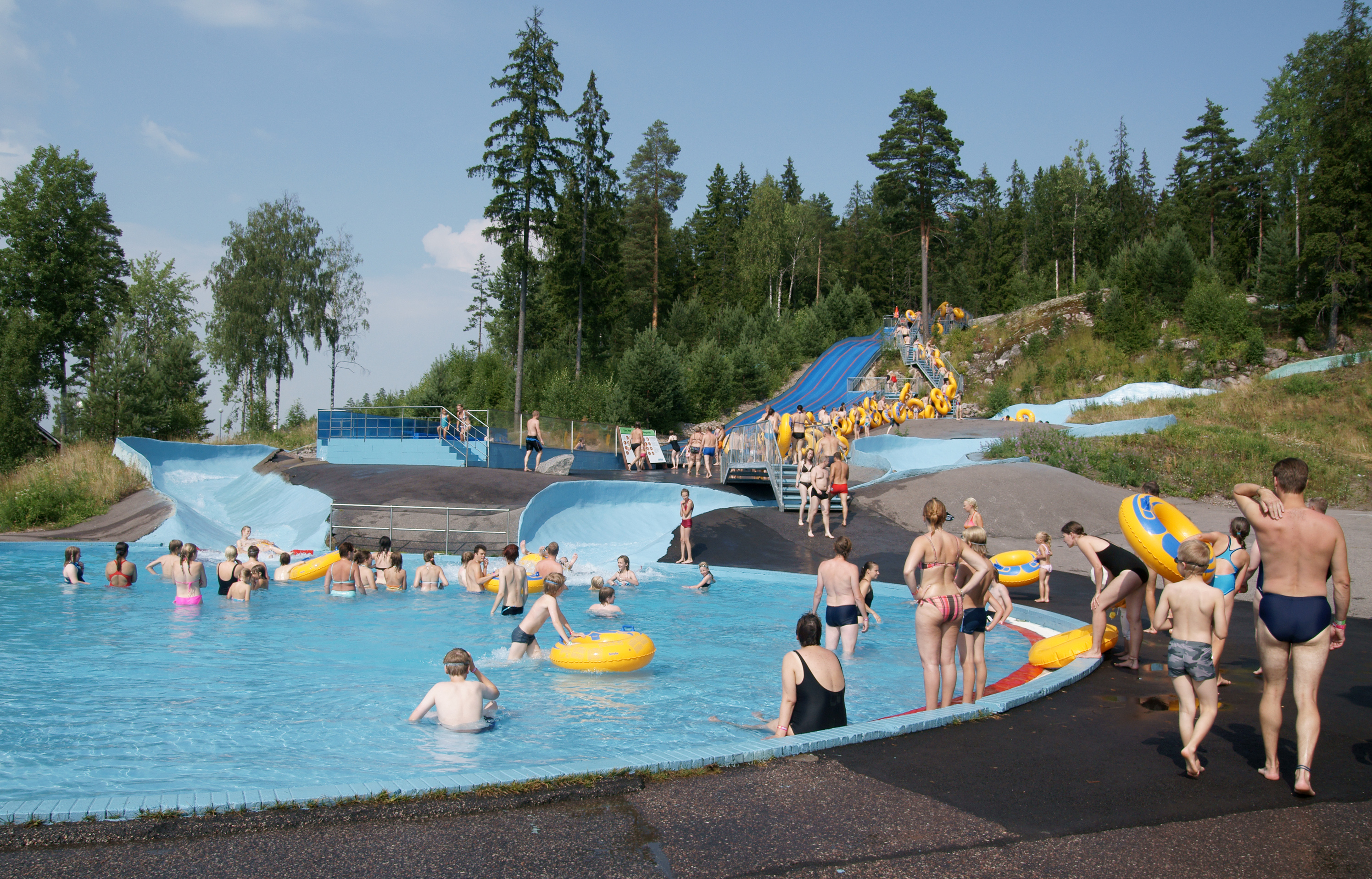 Water park Serena in Espoo, Finland.